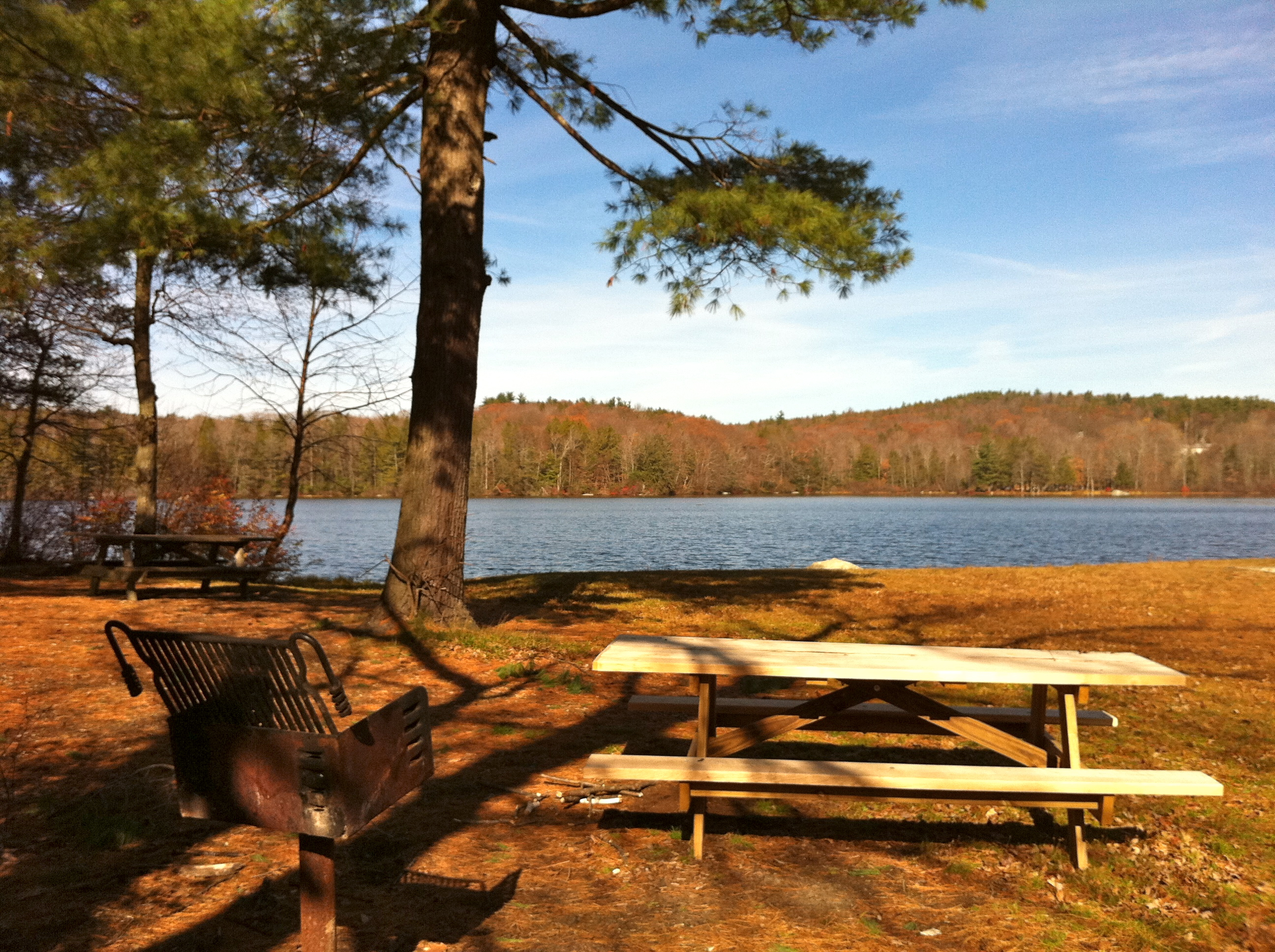 View of Burr Pond from the southern beach/picnic section of the Wolcott Trail inside Burr Pond State Park in Torrington, CT.